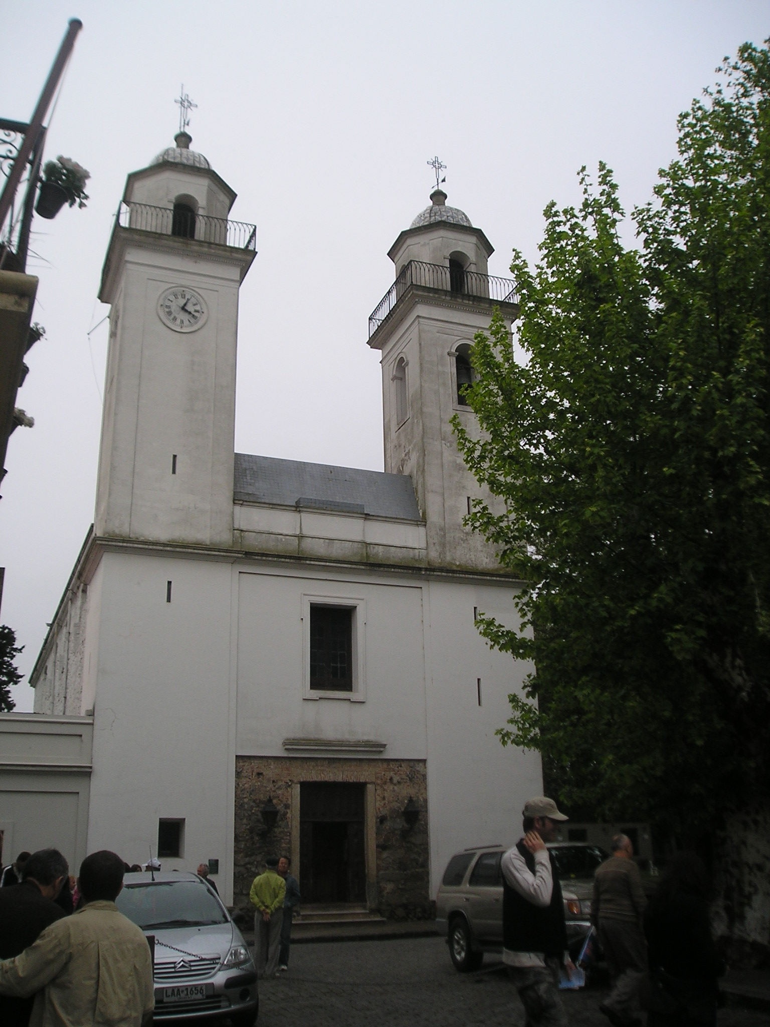 Front view of the Basilica of the Holy Sacrament (Basílica del Santísimo Sacramento) in Colonia del Sacramento (now in Uruguay)